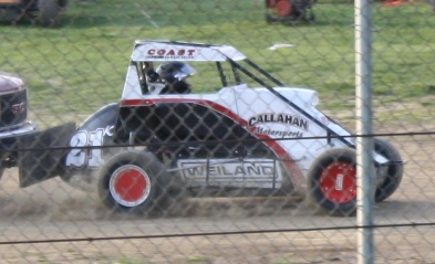 Kurt Mayhew in his Illinois Racing Series (IRS) midget car at Angell Park Speedway.